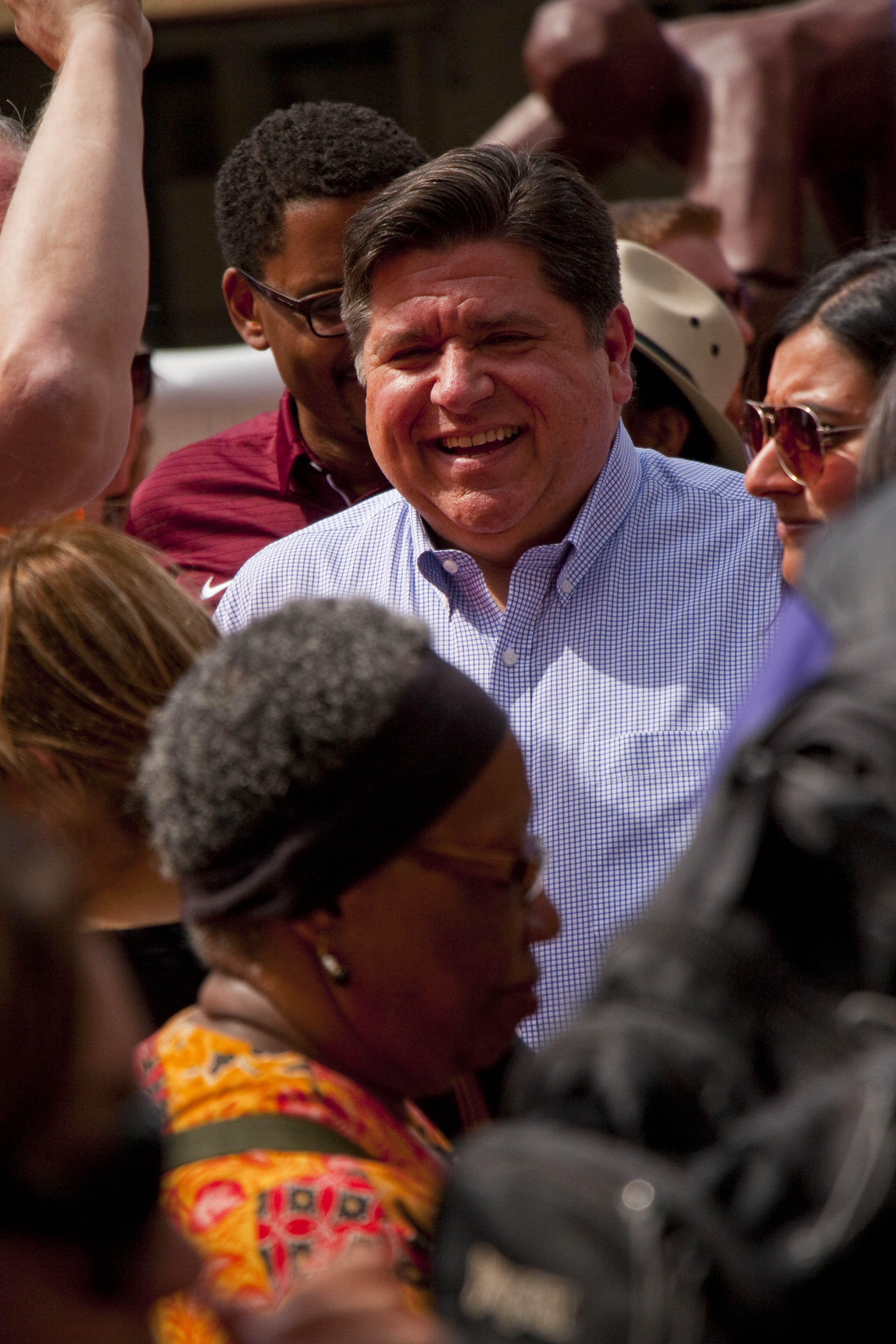 A couple of thousand people gathered Tuesday afternoon at the Haymarket Riot Memorial Sculpture on Des Plaines Street in Chicago's West Loop to celebrate the traditional workers May Day.. Speeches were given and music was played. The usual festive type of atmosphere seemed to be absent this time. People were angry over the actions of the Trump administration directed towards the working class in general, and immigrants.. Billionaire J. B. Pritzker, candidate for governor of Illinois, put in an appearance, He was supported by local union members carrying signs that read 'We Rise With J.B.'. His presence sparked some vocal opposition from people who felt that 'this is a working class event and a billionaire has no business being part of it'. Some shouting occurred between the two camps, but other than that things remained peaceful. The march went down Washington Street then shifted over via LaSalle Street to the State of Illinois Thompson Center on Randolph Street where another rally was held. To me, what symbolized the event and the message being broadcast on the many signs people displayed, was Felipe the Ice Cream Seller. Pushing his cart loaded with tasty frozen treats, he accompanied the marchers from Des Plaines Street all the way to the Thompson Center. It was a warm day with temperatures in the low 80s. It's been a long time since Chicago has had a day that warm. Needless to say Felipe did a lot of business. He works out of the Paleteria 2215 S. Kedzie Avenue in Chicago's Little Village neighborhood. Apparently, a paletero can earn up to $30-$60 a day pushing that cart around. It's a heavy cart too. I had a chance to talk to him a little bit. A very nice man. Just doing his best to earn a living. An excellent example of what the working class is all about.